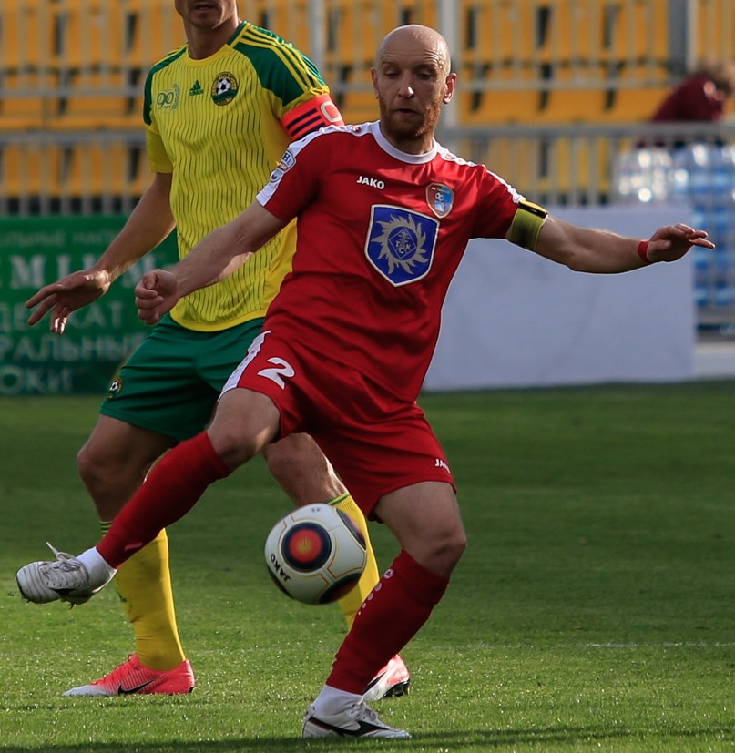 Aleksei Rybin with FC Tambov in a game against FC Kuban Krasnodar.